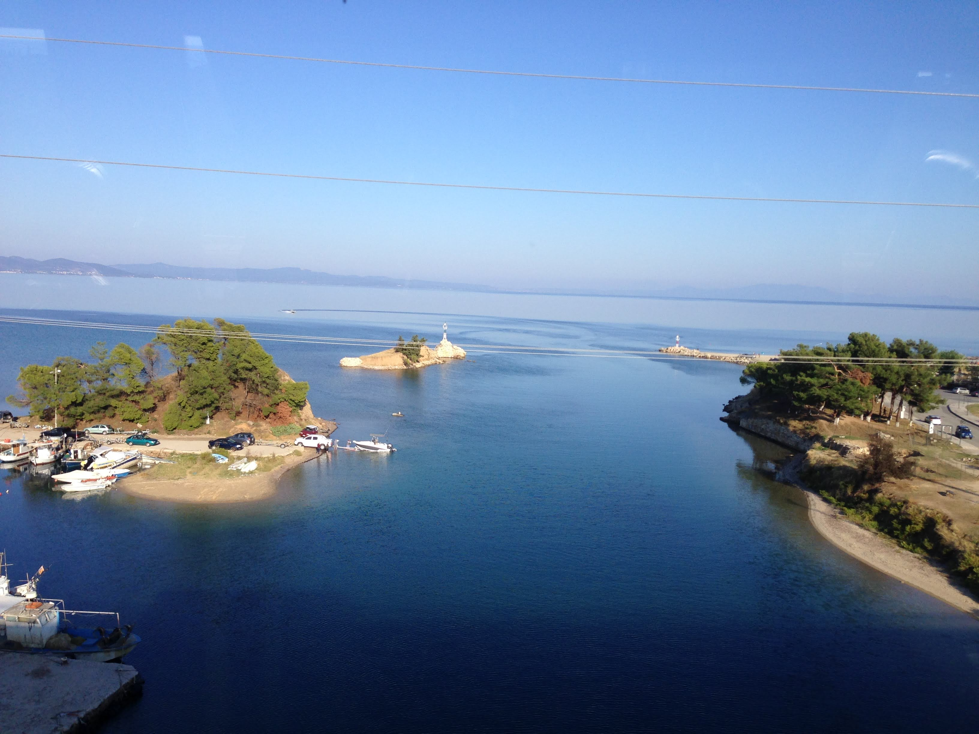 Potidea canal (2019)